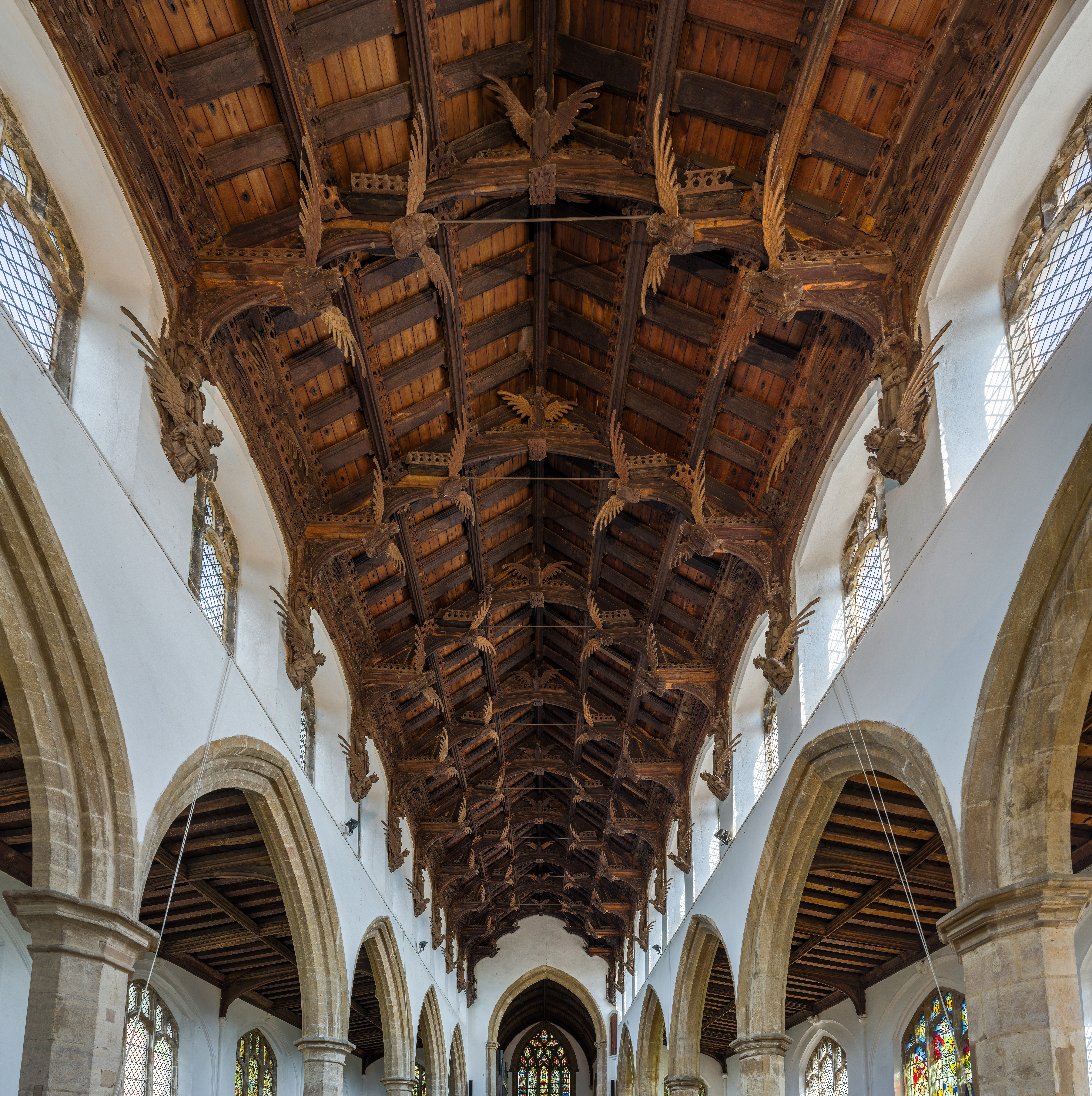 The nave hammerbeam ceiling of St Wendreda's Church in March, Cambridgeshire, England.